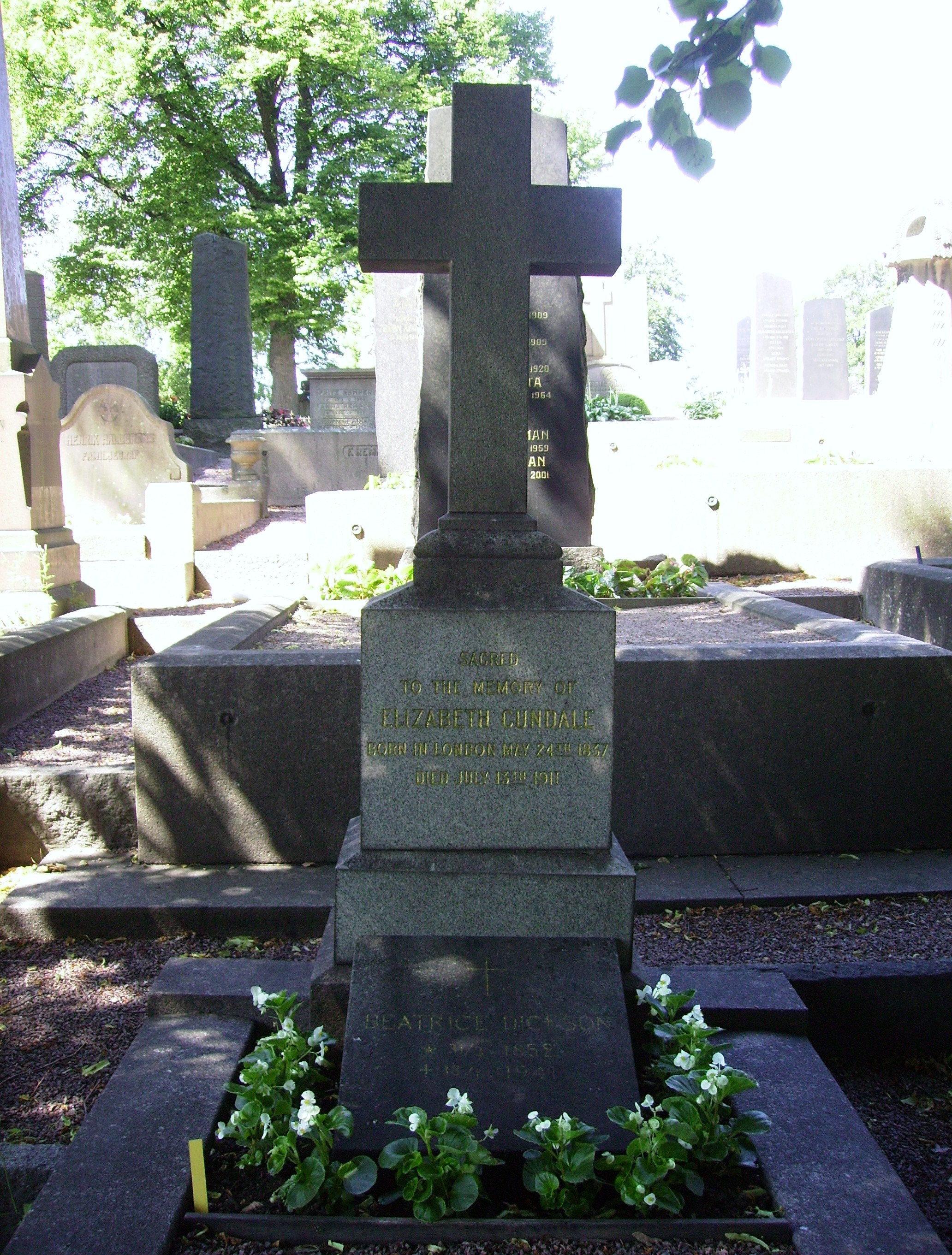 Picture of Beatrice Dickson's grave at Östra kyrkogården in Gothenburg